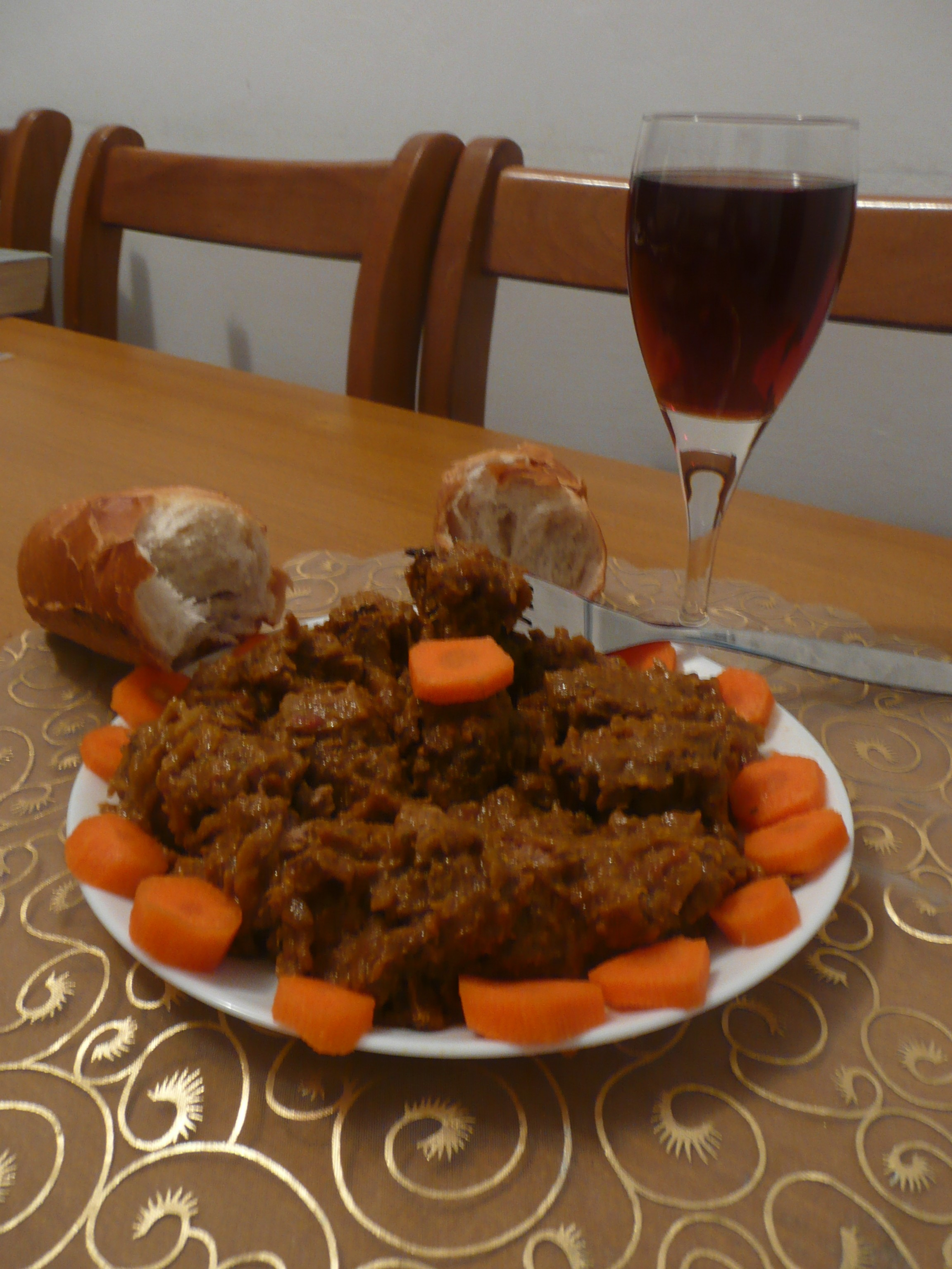 Merenjena Asada is a sepharadi food from the balkans made from Eggplant